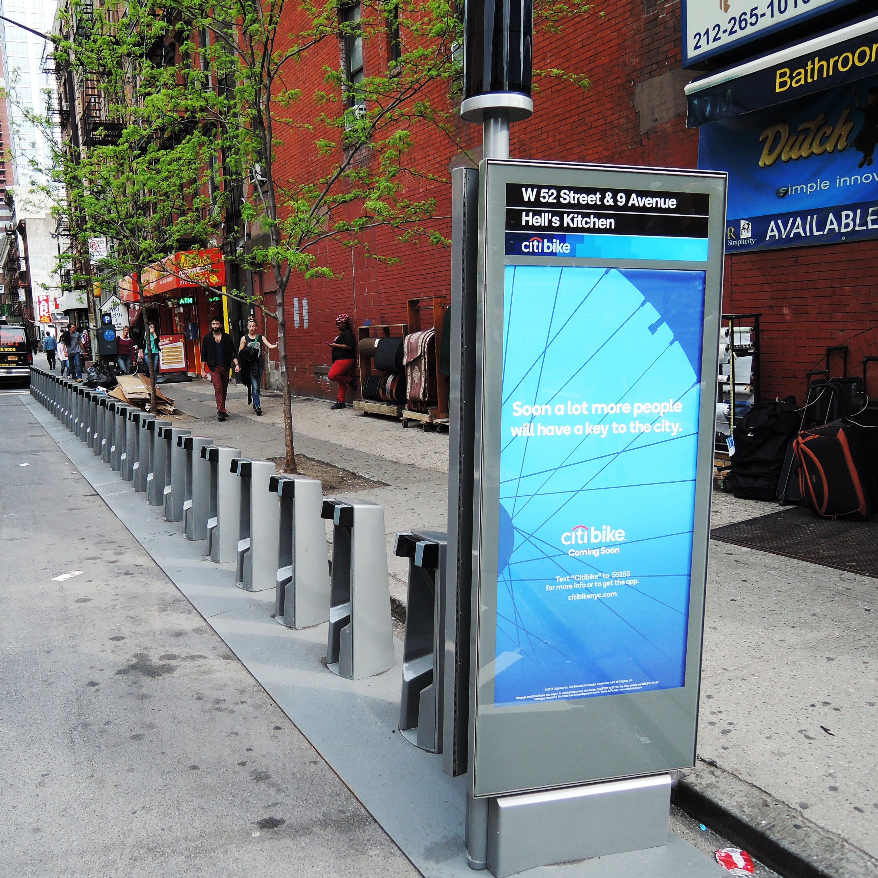 Looking southeast from 9th Av at newly installed, empty as yet, 52 St station on a cloudy afternoon.